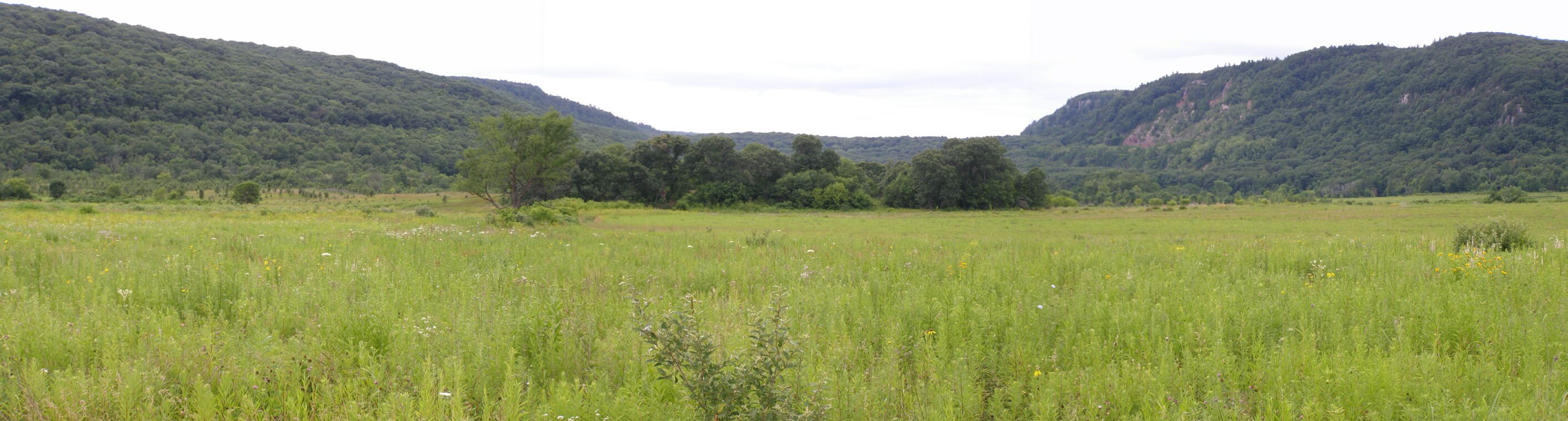 Devil's Lake, Southeast moraine from Roznos Meadwo